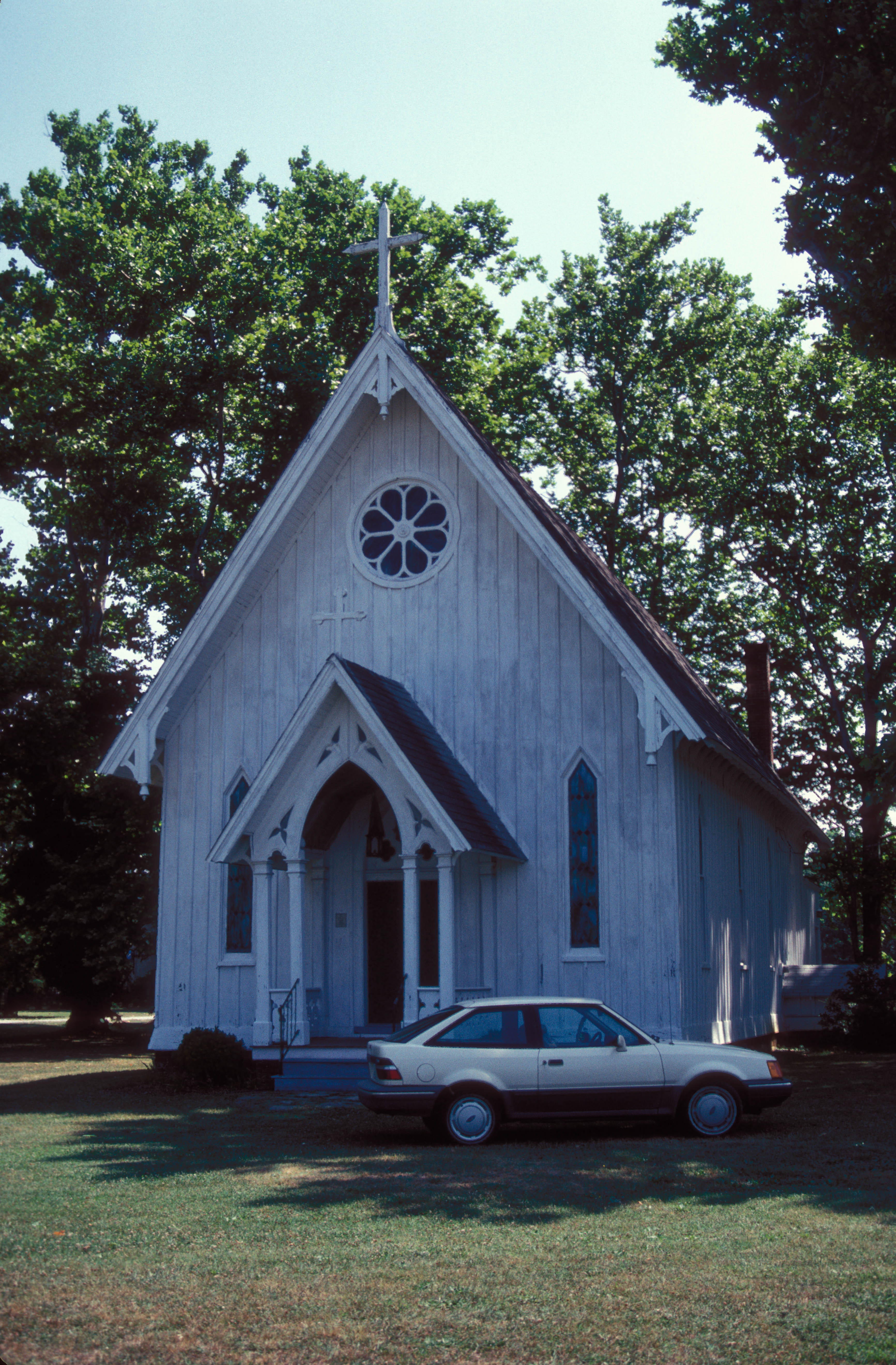 PARISH WAS FORMED IN 1653